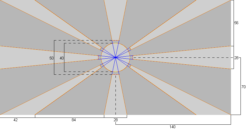 Construction sheet for the Flag of Macedonia.